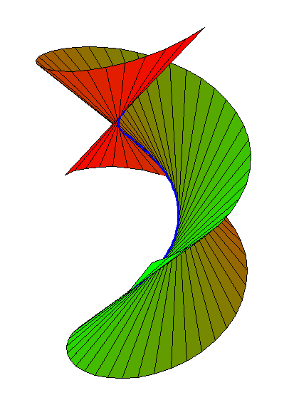 Tangent developable of a helix. Created using the SingSurf program and Javaview.